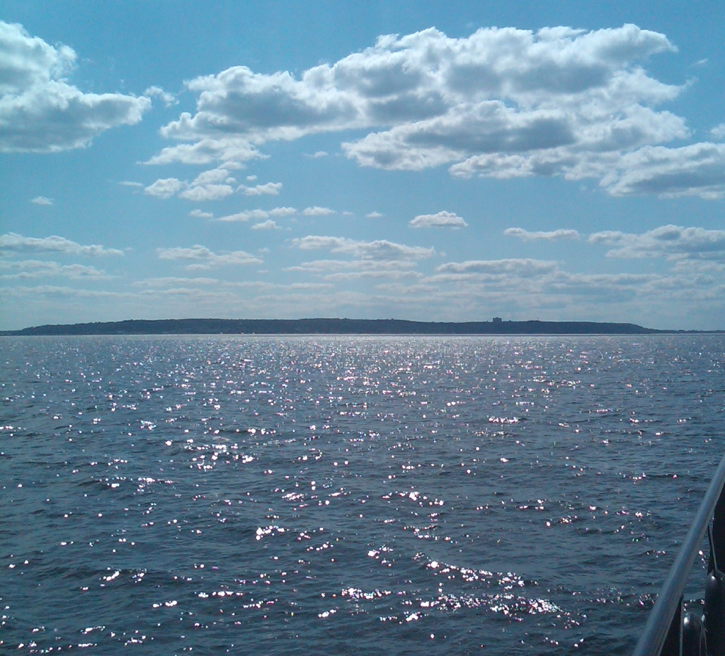 The Navesink Highlands of New Jersey seen from the Atlantic Ocean on a vessel approaching New York Harbor.